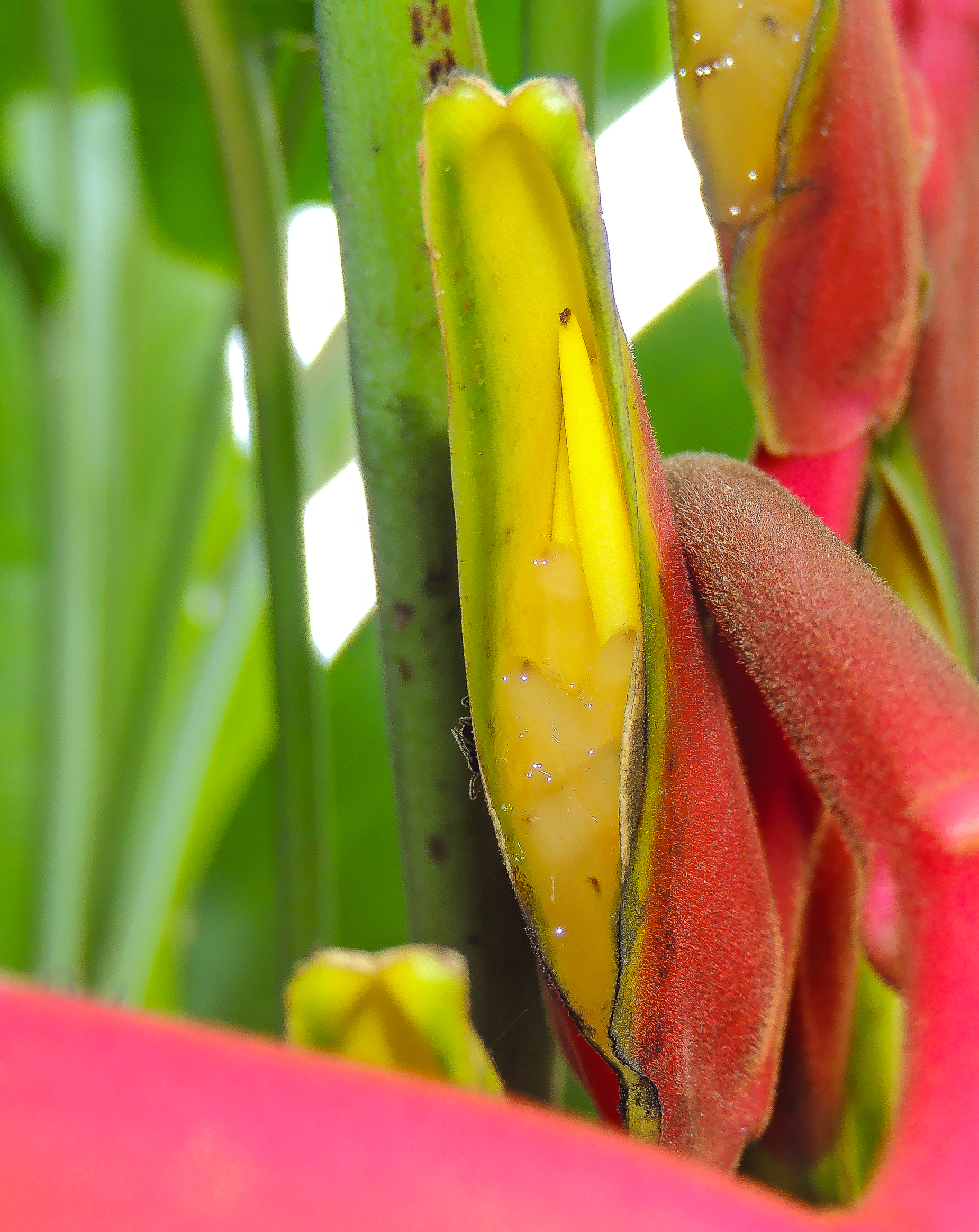 Heliconia rostrata Inflorescence